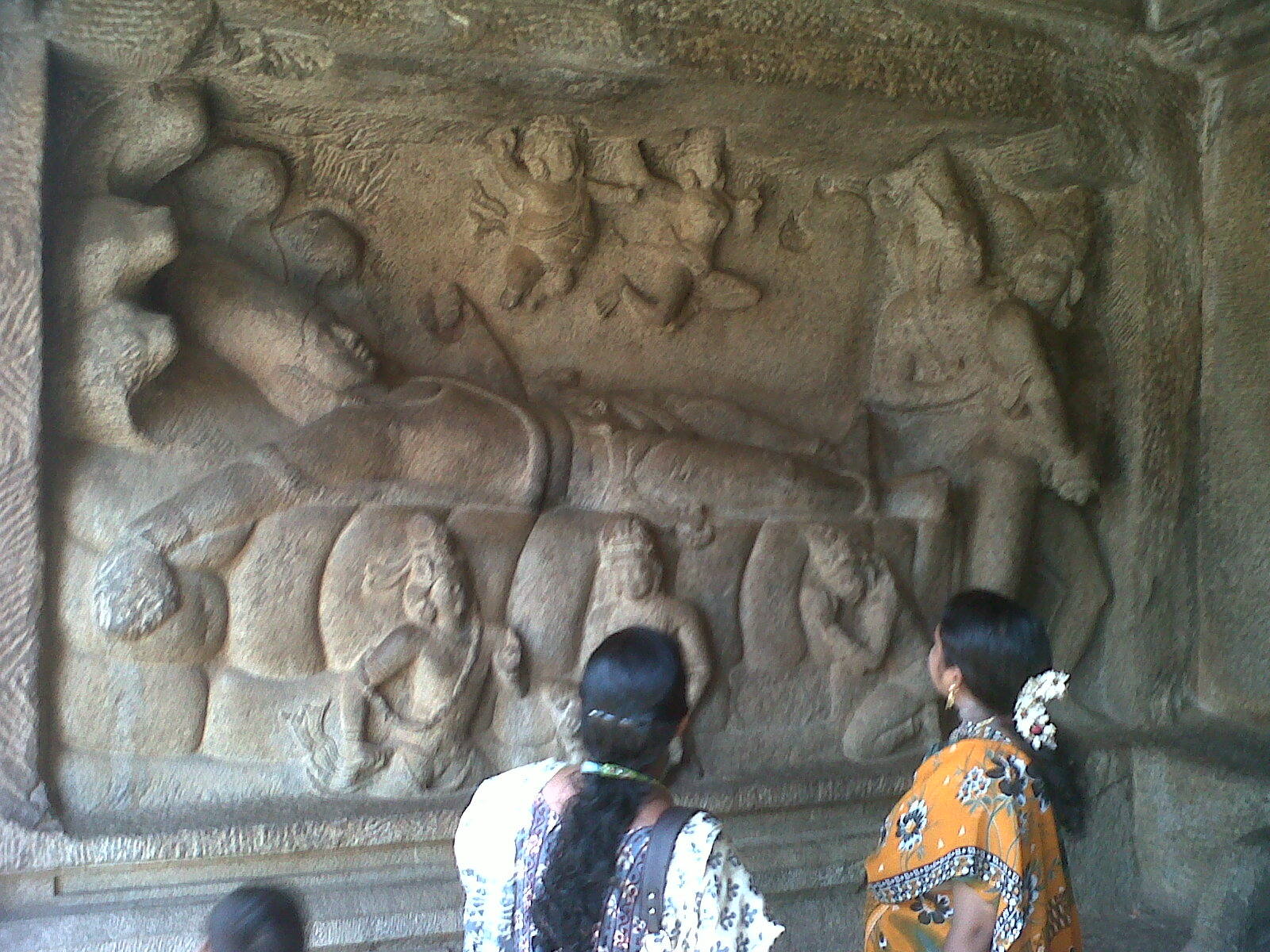 People seeing vishnu sculpture at Mahabalipuram